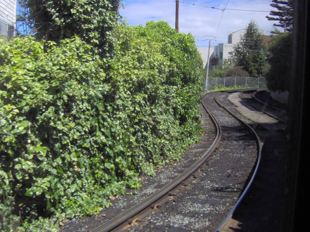 The J Church line where it cuts through the block east of Church Street at 20th Street.